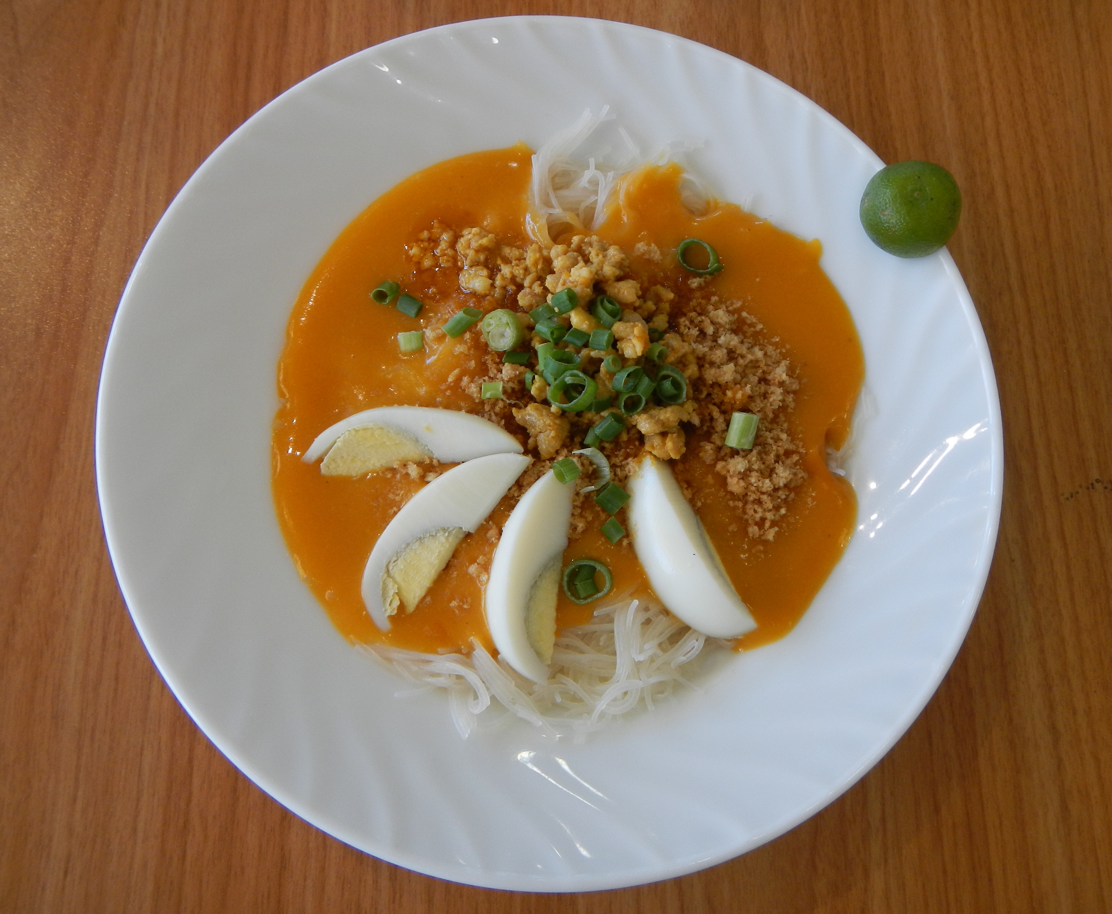 Pancit palabok with calamansi